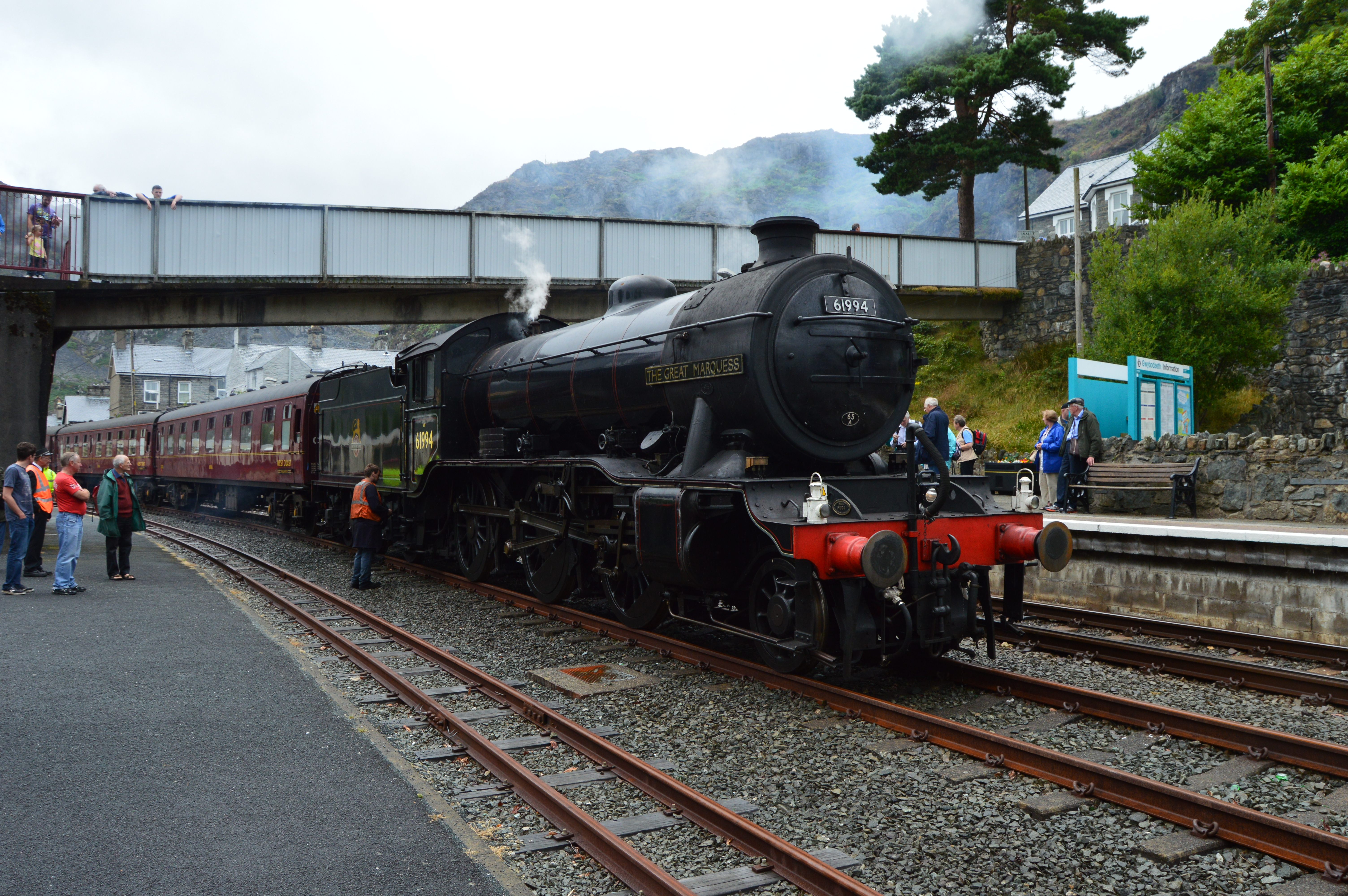 61994 The Great Marquess resting at Blaenau Ffestiniog.